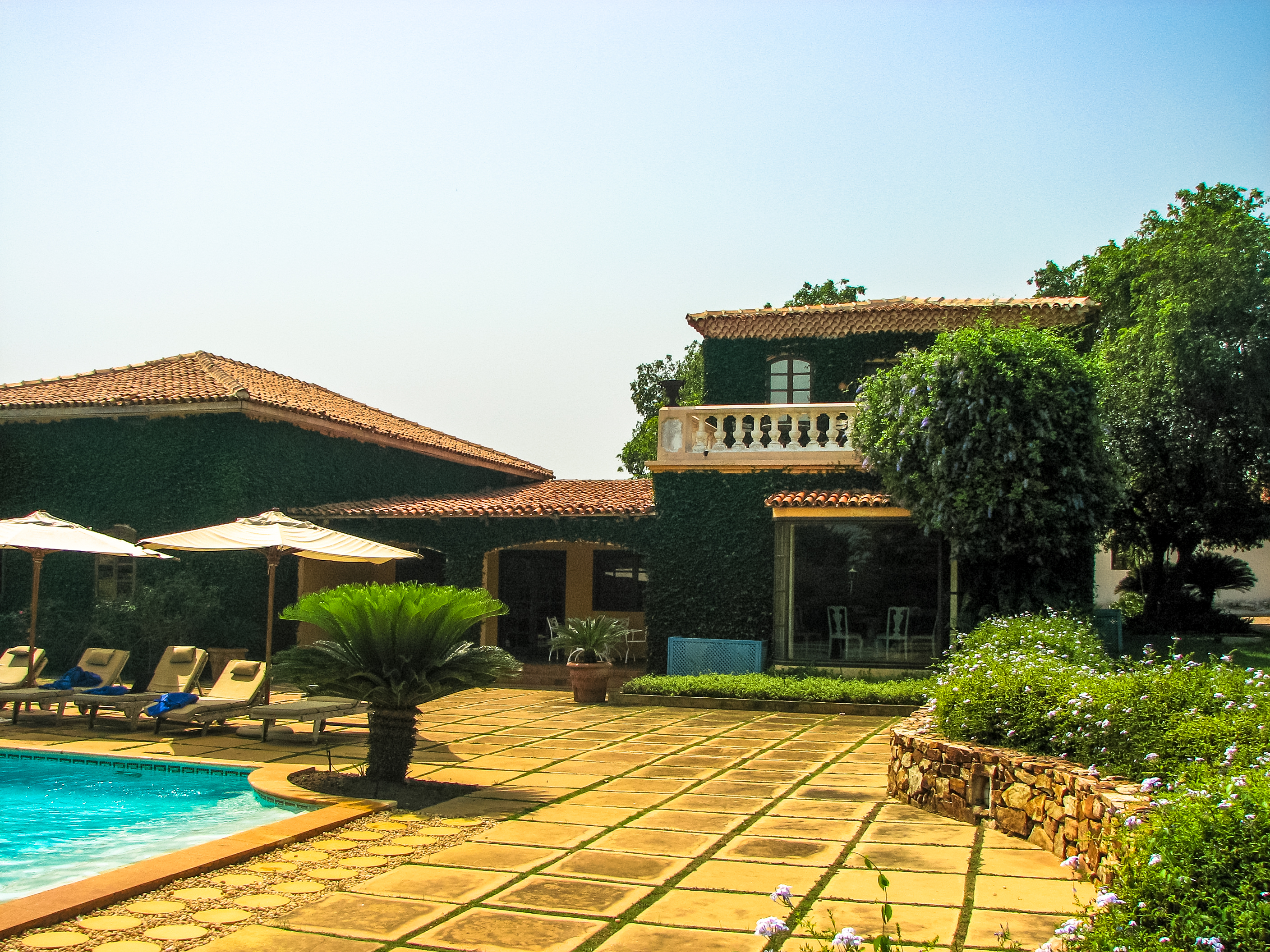 Luxury Villa House in Greater Accra Region, South Ghana.